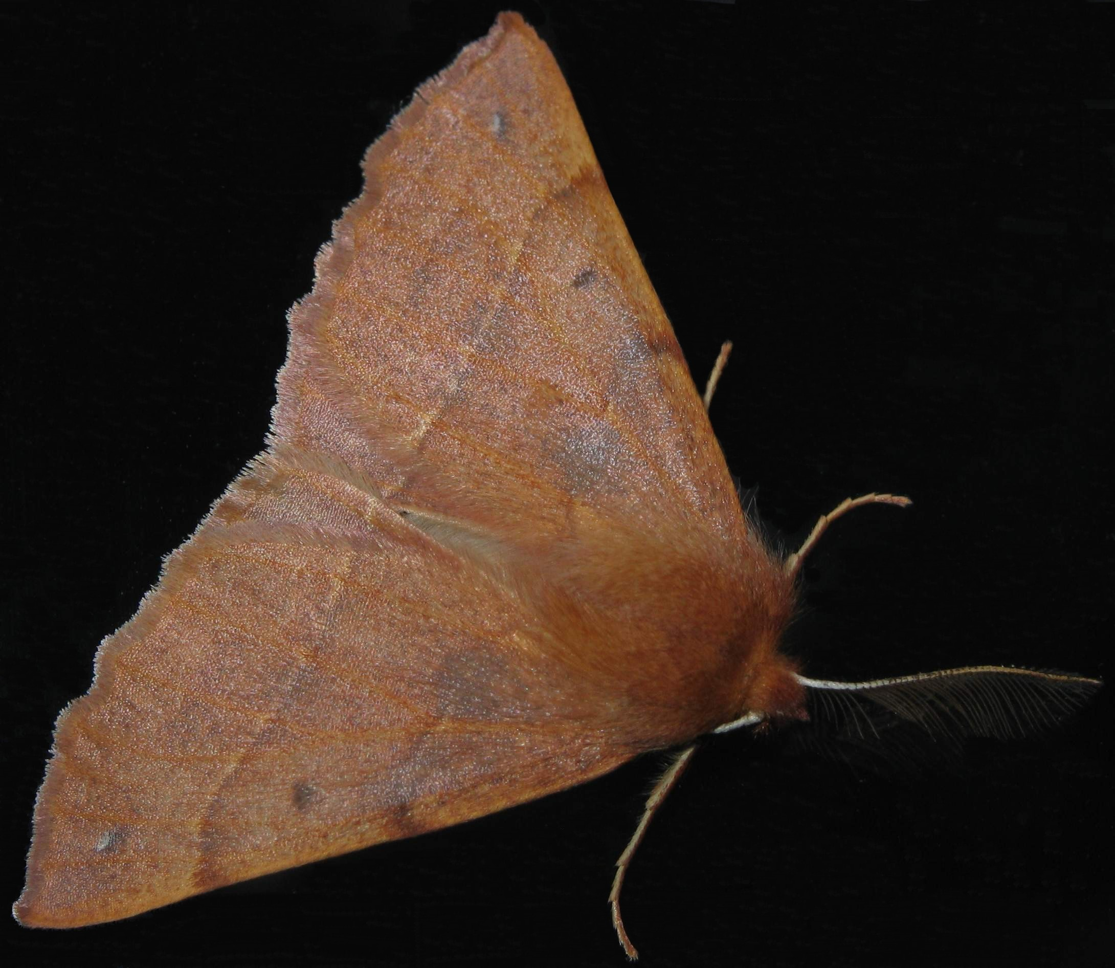 A Feathered Thorn (Colotois pennaria). Author: soebe Date: September 01, 2005 Location: Hamburg, Northern Germany Taken by Soebe in Northern Germany (Hamburg) and released under GNU FDL.